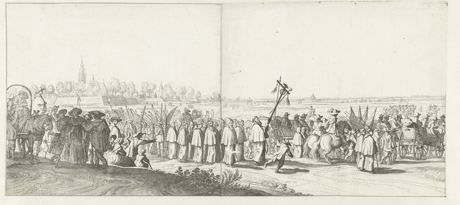 Exodus of the Spanish garnison out of Breda, 1637, anonimious, 1637